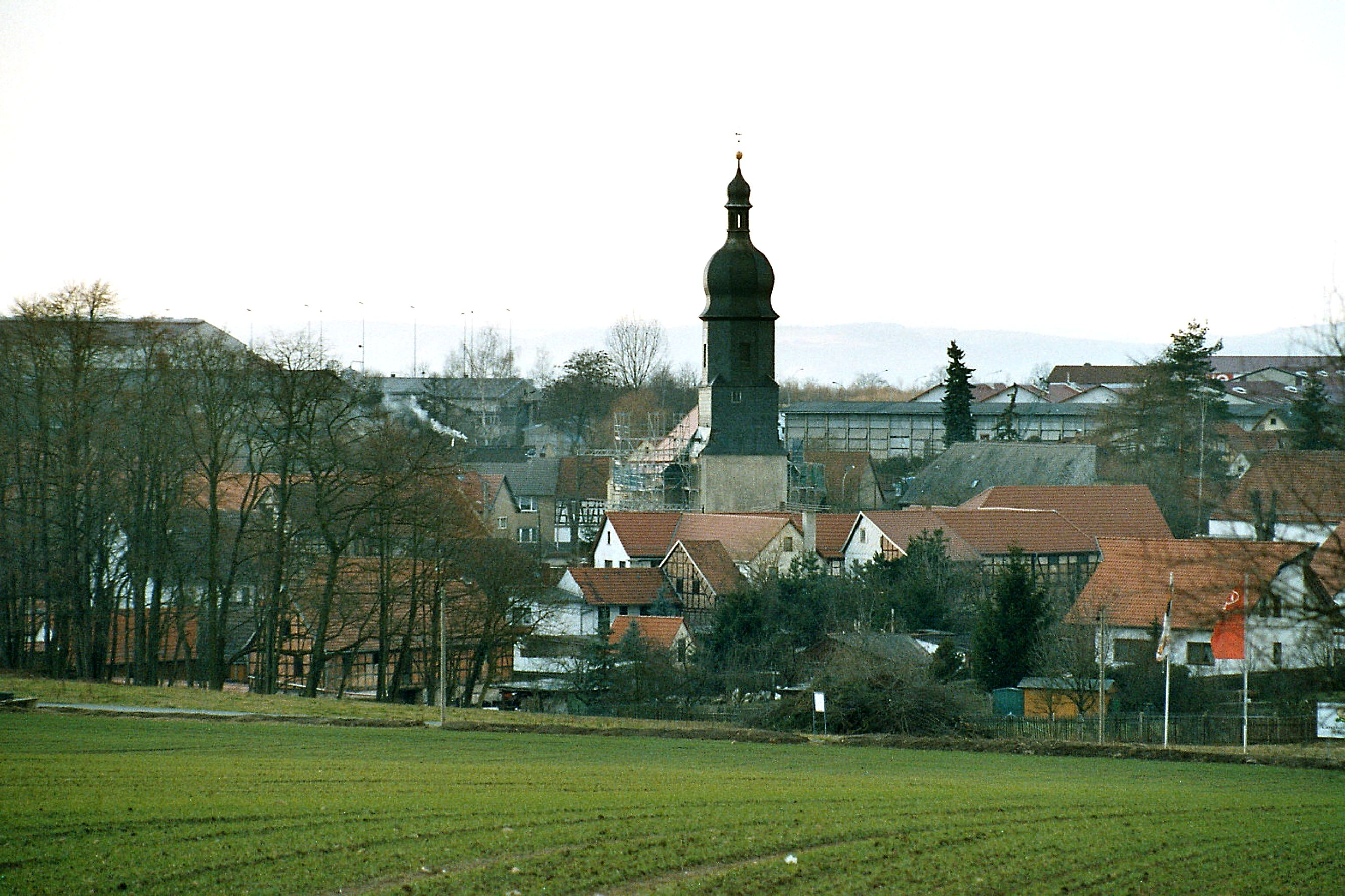 View to village Moersdorf